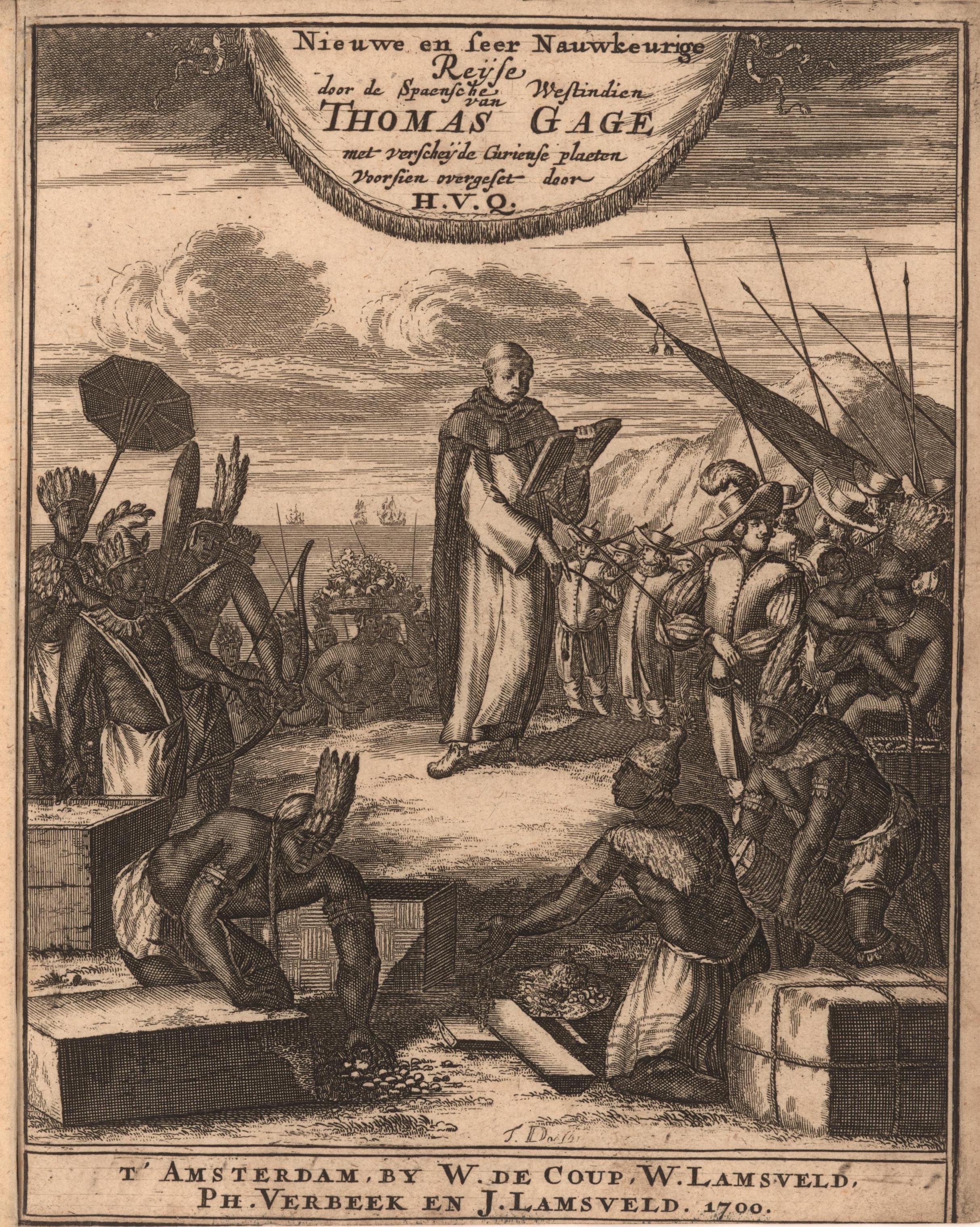 Engraved title page by Thomas Doesburgh (1683-1714) in Thomas Gage's Nieuwe ende seer naeuwkeurige reyse door de Spaensche West-Indien van Thomas Gage;: met seer curieuse soo land-kaerten als historische figueren verciert ende met twee registers voorsien. Dutch translation by Henrick van Quellenburg of: The English-American his travail by sea and land: or, A new survey of the West-India's [sic], first printed London, 1648.